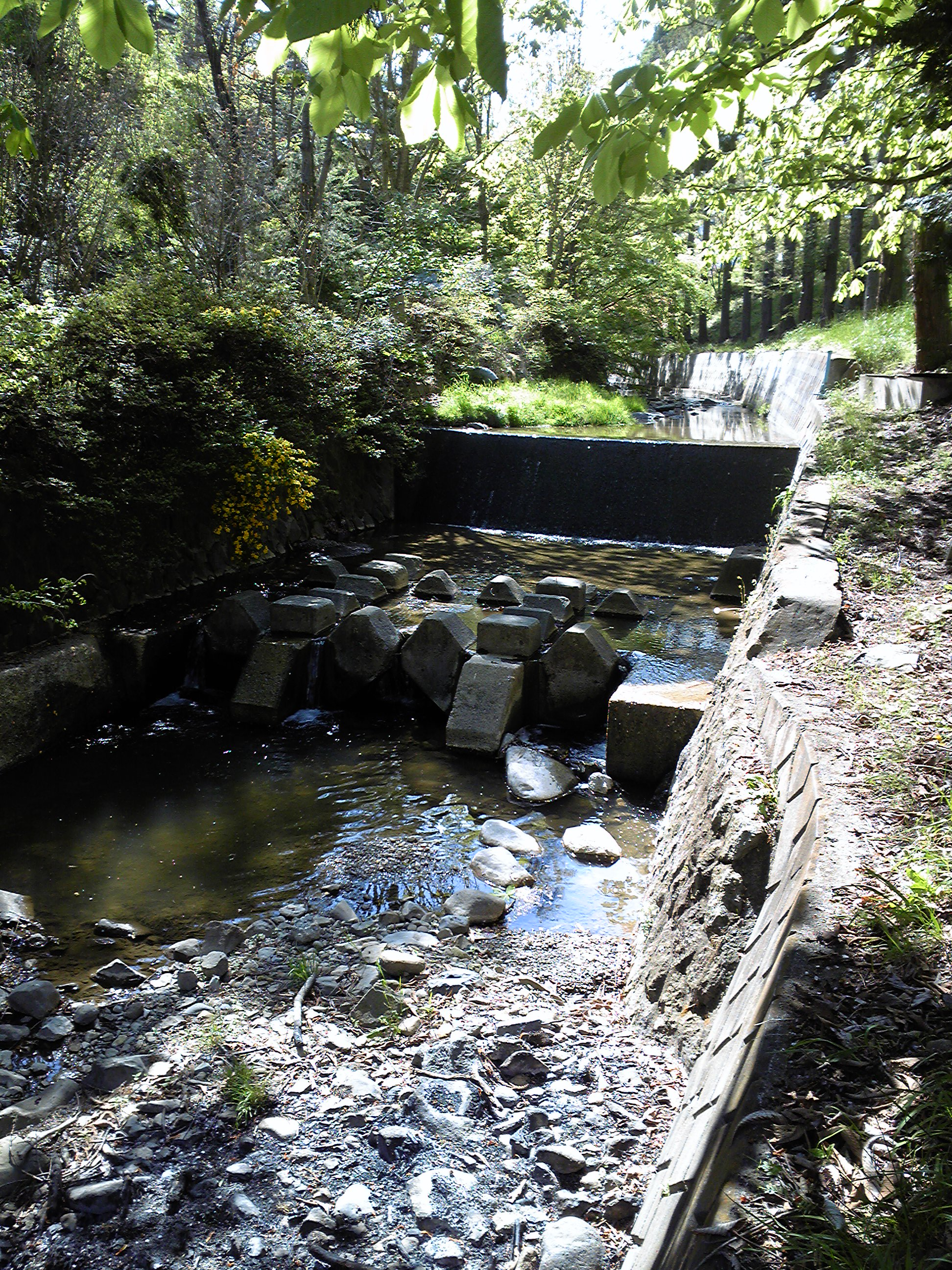 Yugawa River in Ueda, Nagano Japan.